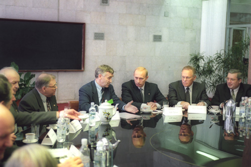 NOVOSIBIRSK. President Vladimir Putin meeting with scientists at the Institute of Nuclear Physics of the Russian Academy of Sciences' Siberian Branch.